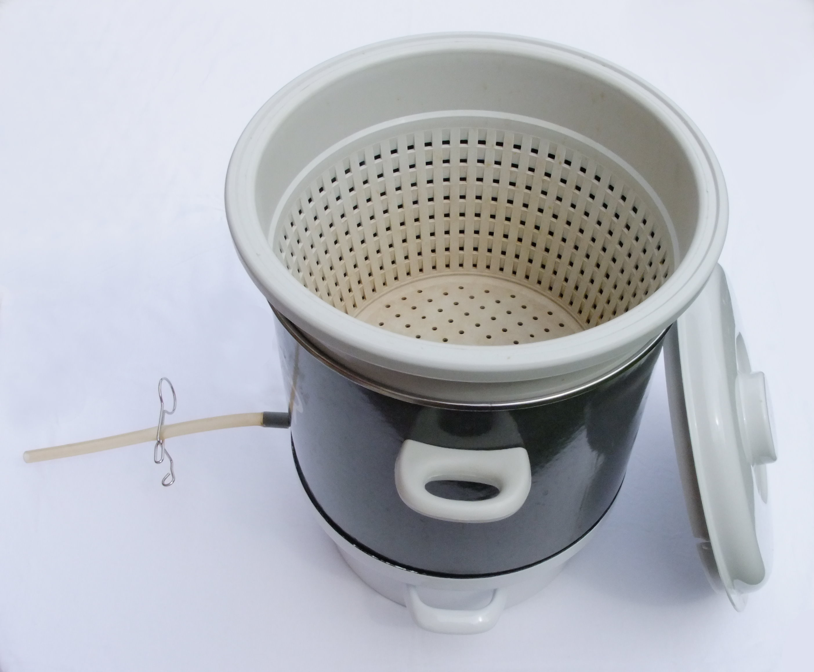 Steam Juicer Kochstar 766